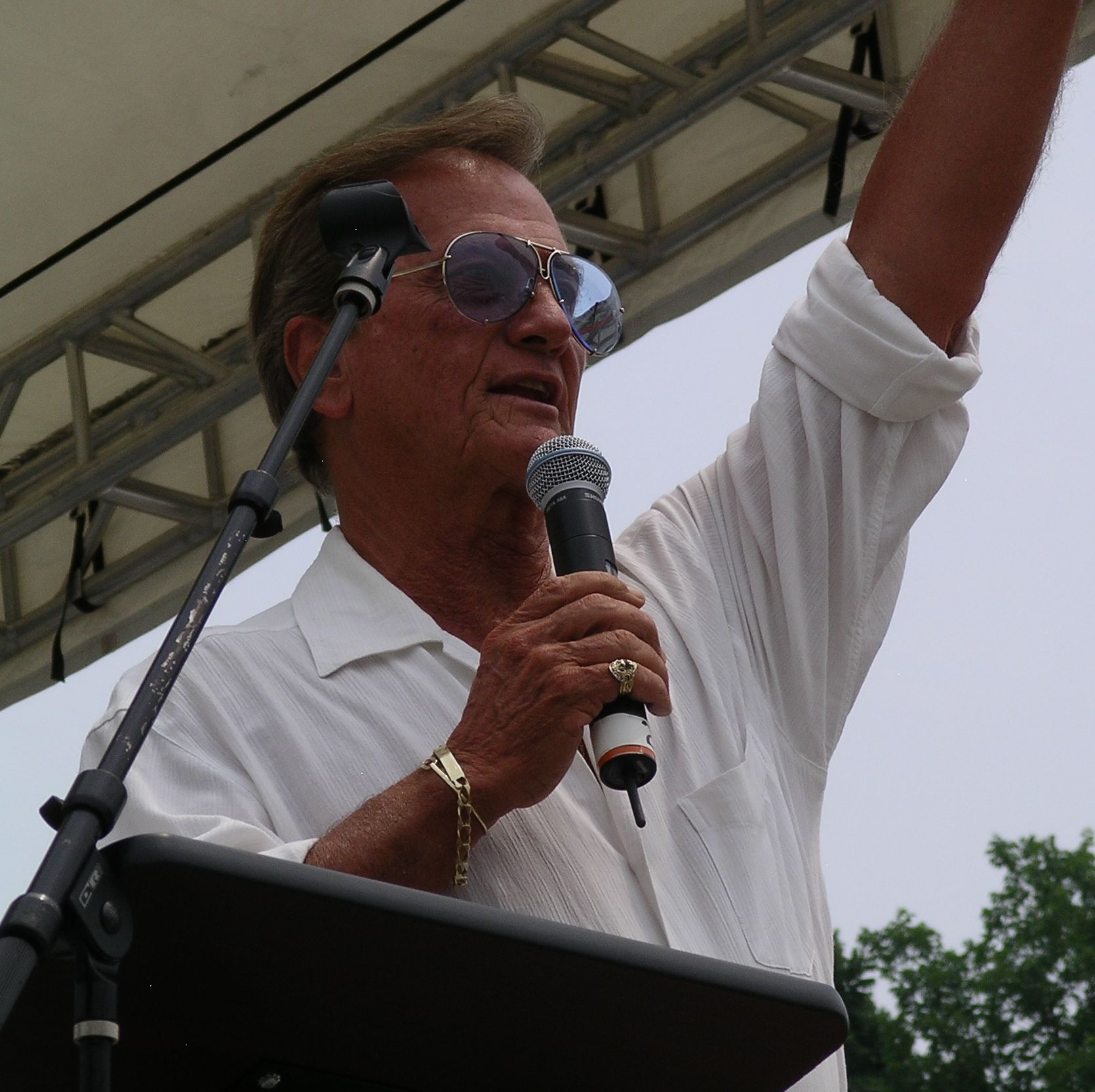 Pat Boone, performing in May 2007GOE II 5-27-07 074 (cropped)